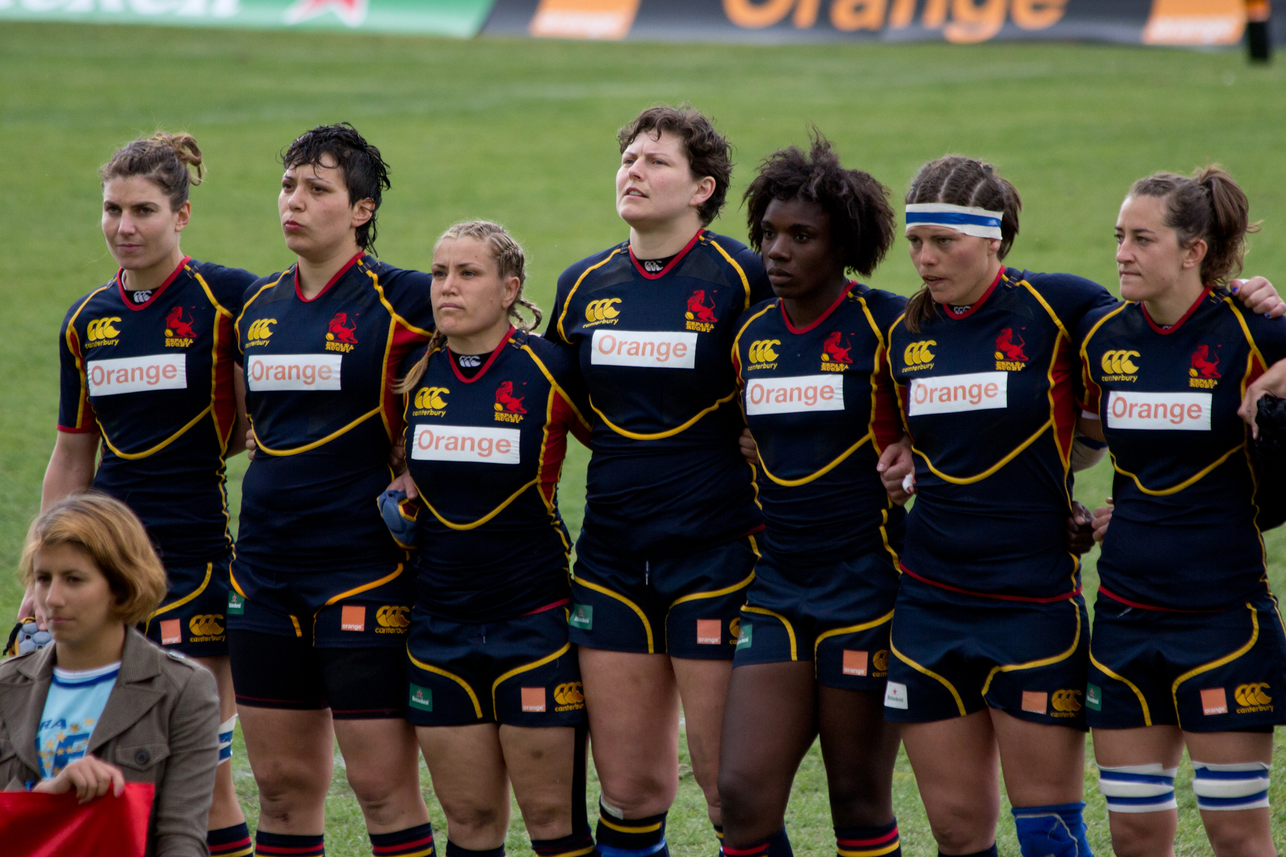 Spain national rugby union team during the 2013 Women's European Qualification Tournament for WRWC France 2014.